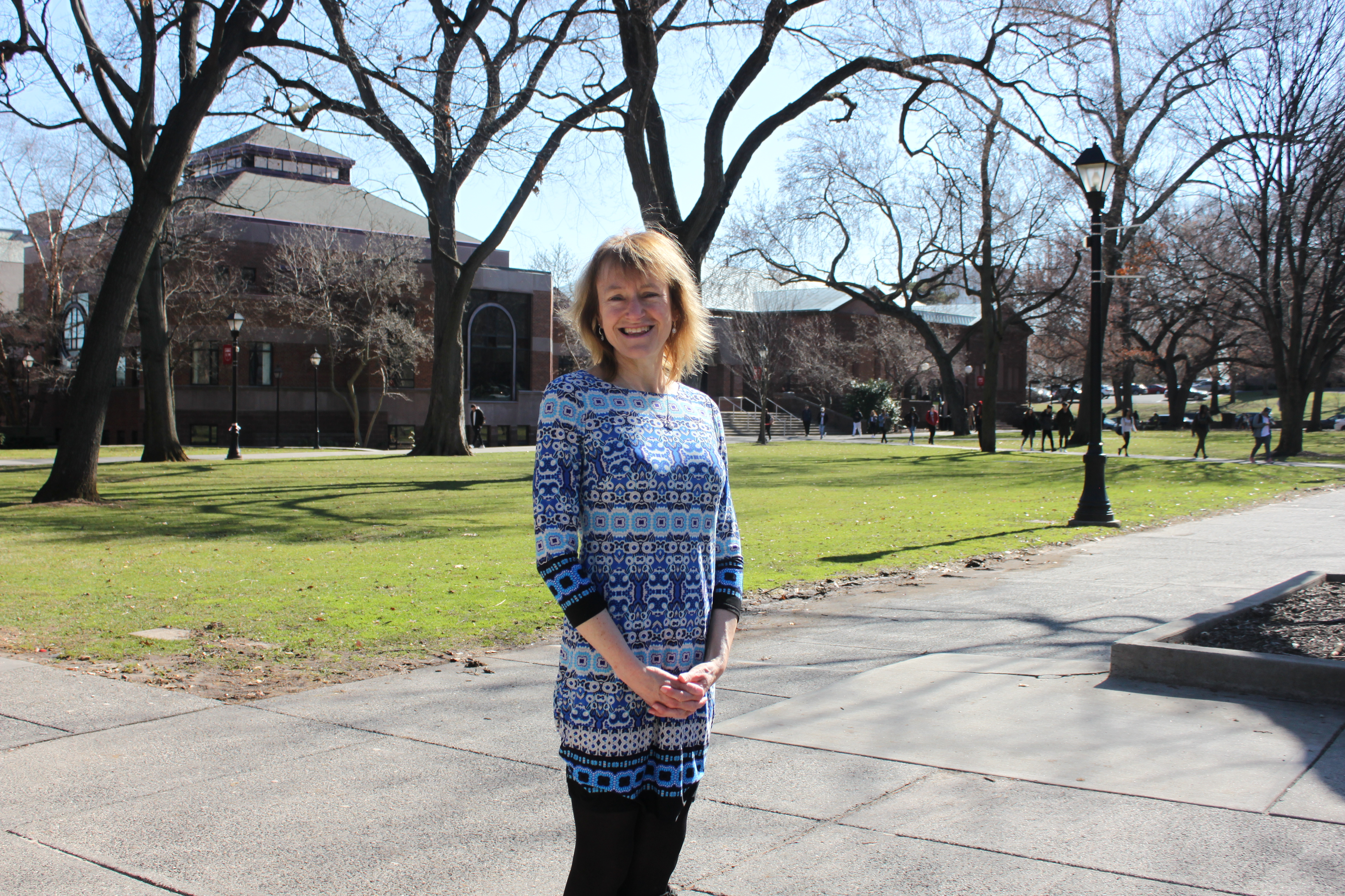 On the College Ave Campus, Rutgers University